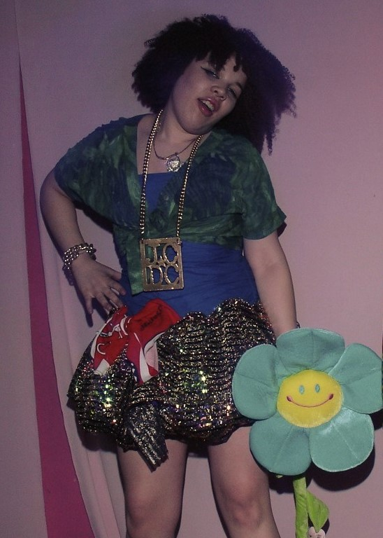 Jean Charles de Castelbajac fashion show, 2007. Girl wearing a rah-rah skirt.